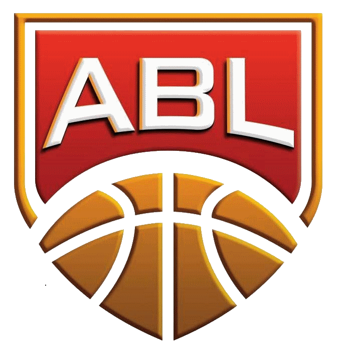 Official logo of ASEAN Basketball League